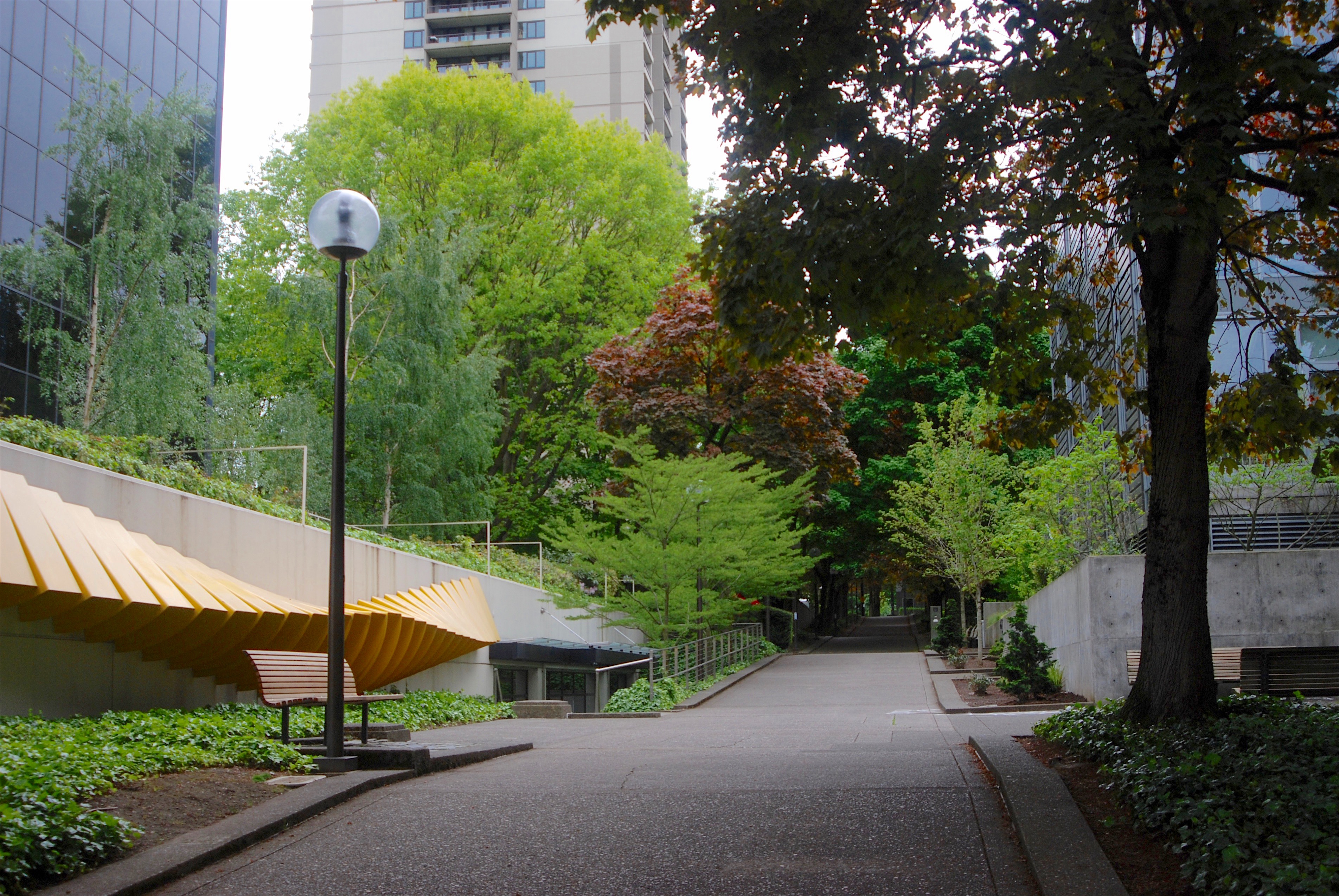 Looking south on a pedestrian mall on the alignment of SW 3rd Avenue at the alignment of Mill Street, in downtown Portland, Oregon. The pathways are part of the Halprin Open Space Sequence, a system of connected pedestrian malls and landscaped open spaces created in 1966–68 and listed on the U.S. National Register of Historic Places in 2013. The NRHP Registration Form refers to this pathway as the SW Third Avenue Pedestrian Mall (and the one intersecting it, on the right, as the Mill Street Pedestrian Mall).